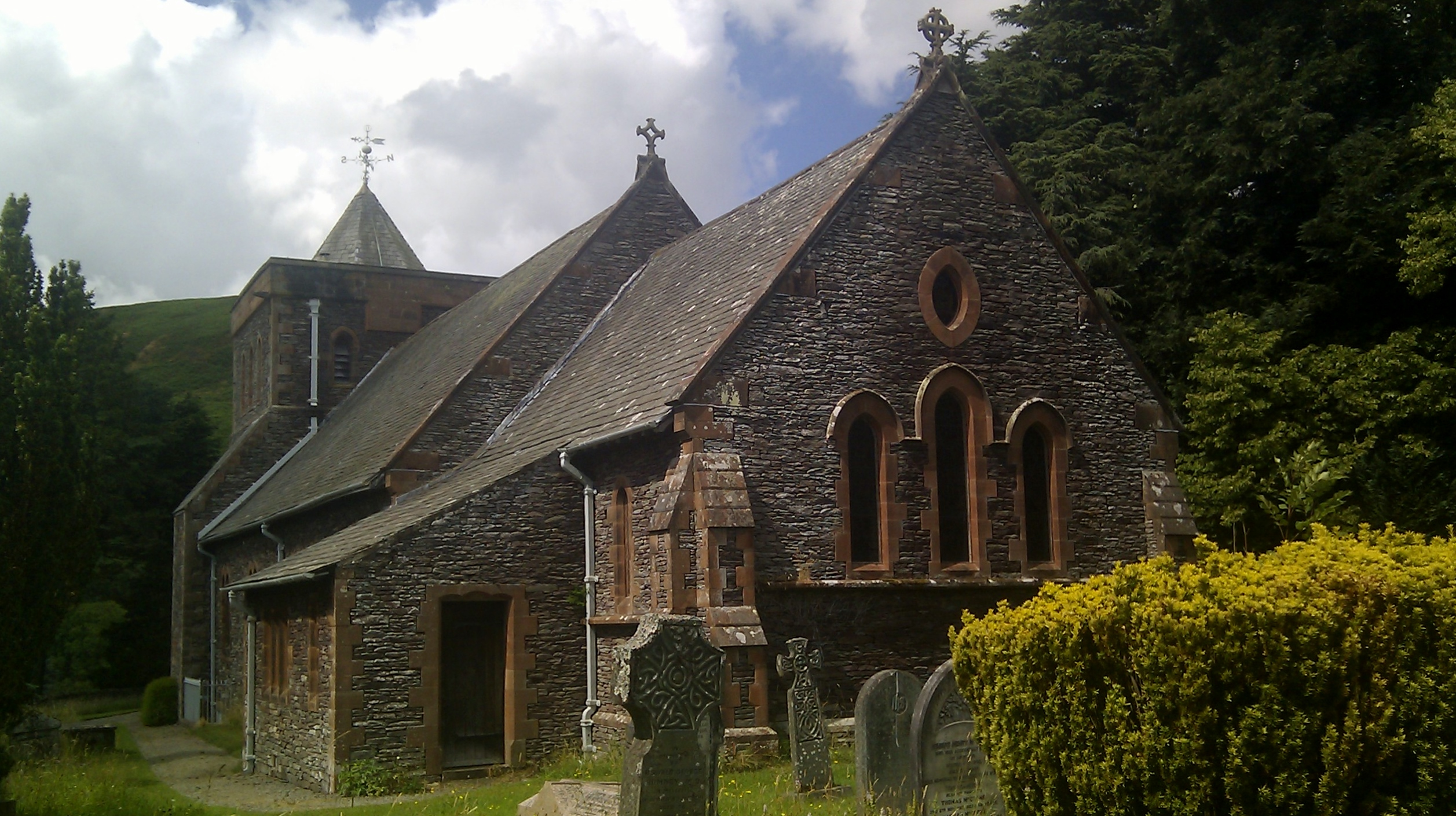 All Saints' parish church, Watermillock, Cumbria (formerly Cumberland), seen from the east